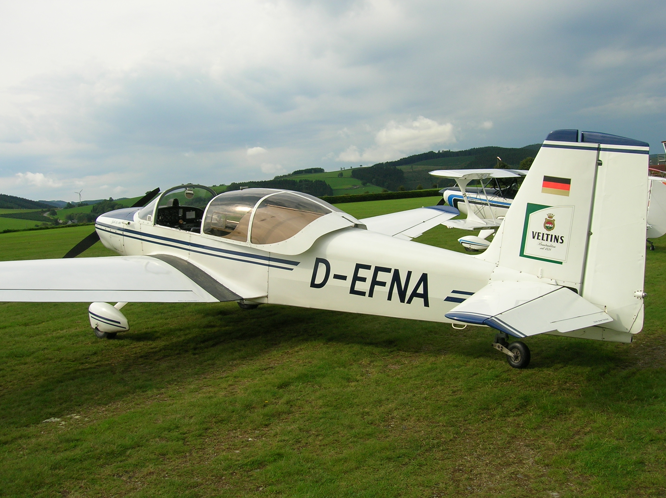 Job 15-180/2 of the LSV Meschede-Schüren during the Bergfliegen 2011 at EDKR